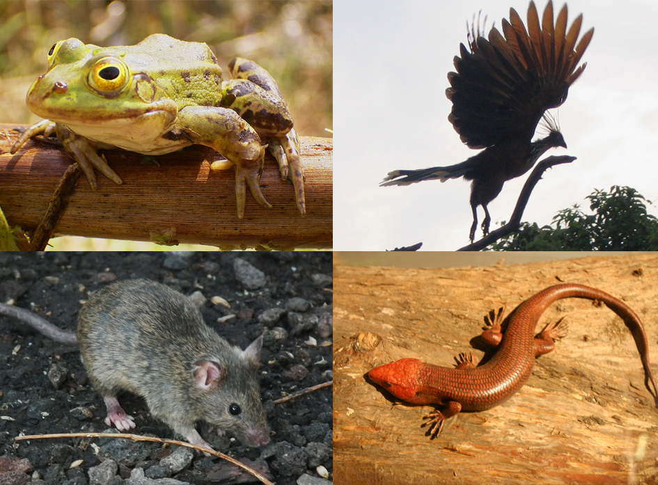 The four classes of extant tetrapods, (clockwise from upper left), Rana (amphibian), Opisthocomus (bird), Eumeces (reptile) and Mus (mammal). Original photos are: File:Frog on bough.jpg File:Rurrenabaque Bolivia - The Amazon.jpg File:Verletzte Hausmaus.JPG File:Eumeces laticeps (male).jpg